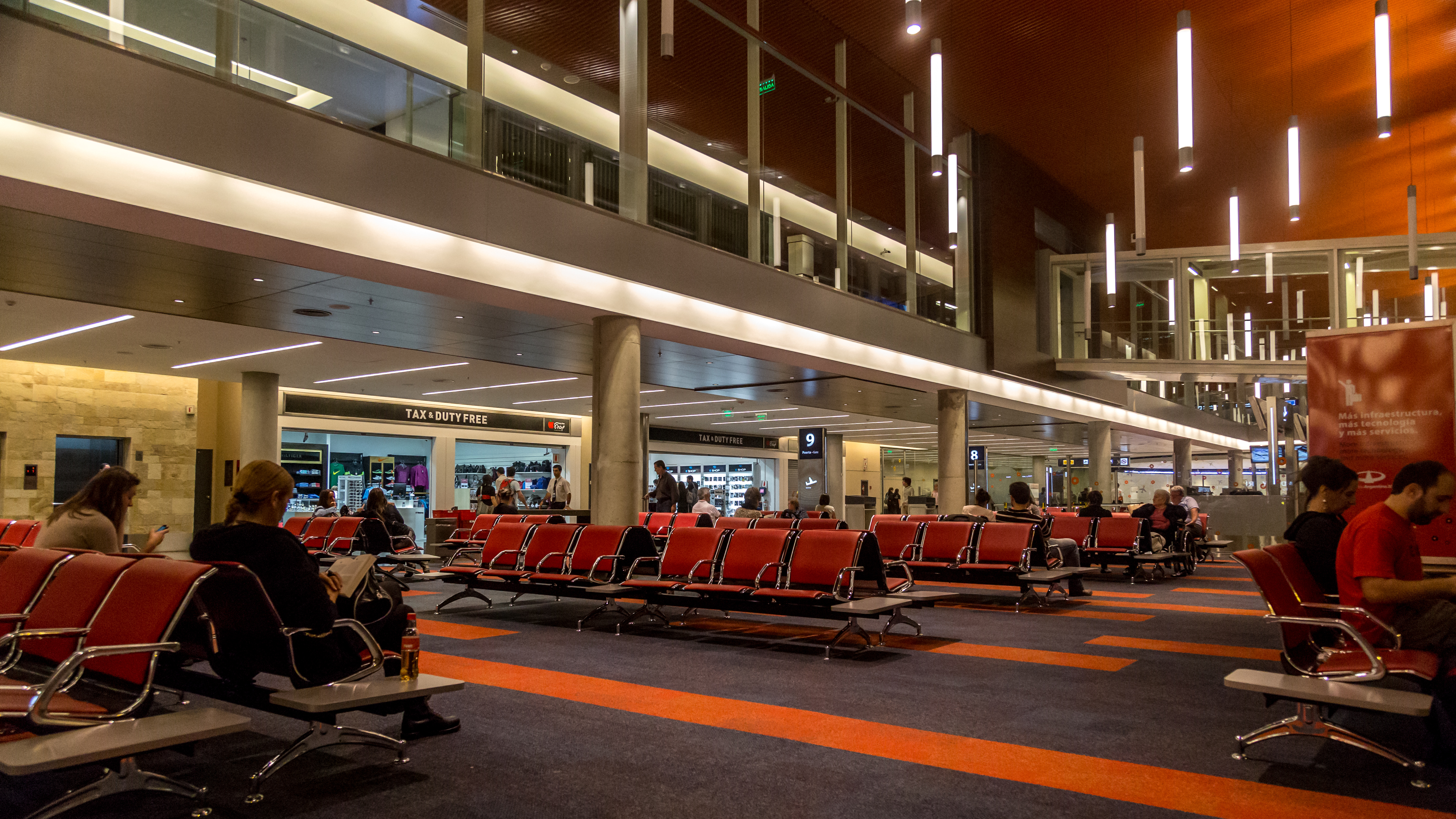 View of Terminal B (inaugurated in March 2013) at Pistarini International Airport, Ezeiza, Argentina.